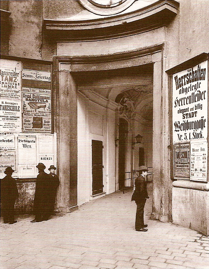 Der Eingang des alten Burgtheaters am Michaelerplatz in Wien / Entrance of the old Burgtheater at the Michaelerplatz in Vienna